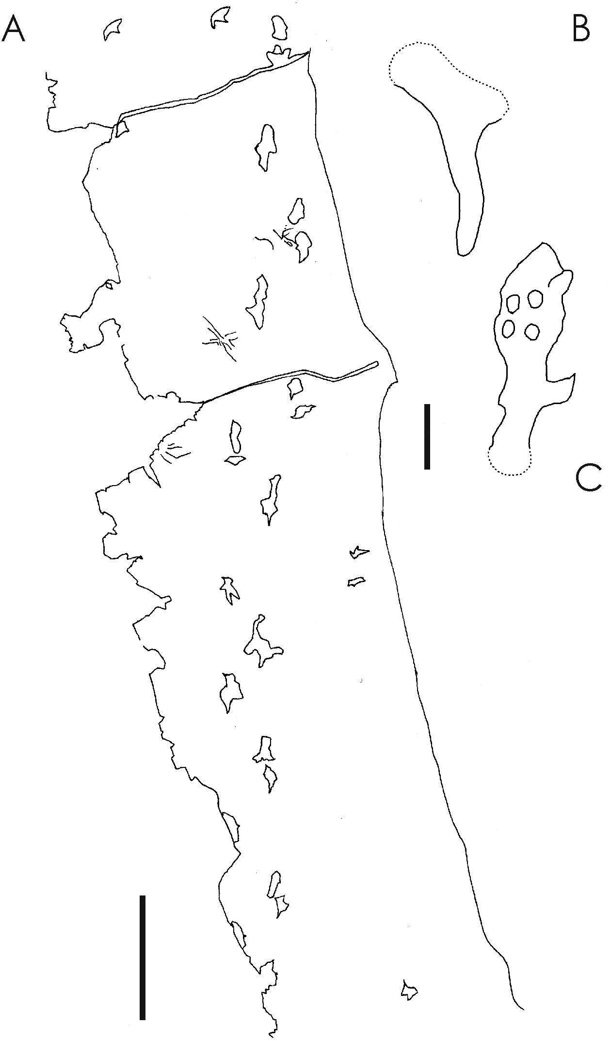 The probable azhdarchid trace fossil Haenamichnus uhangriensis. A, the 7.3 m trackway CNUPH.P9; B, H. uhangriensis holotype (CNUPH.P2), manus (top) and pes (bottom) prints. Scale bars represent 1 m (A) and 100 mm (B).